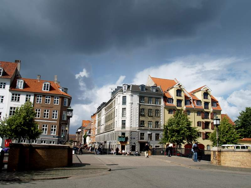 Snorrebroen, the bridge which carries Sankt Annæ Gade across Christianshavns Kanal in the Christianshavn neighbourhood of Copenhagen, Denmark